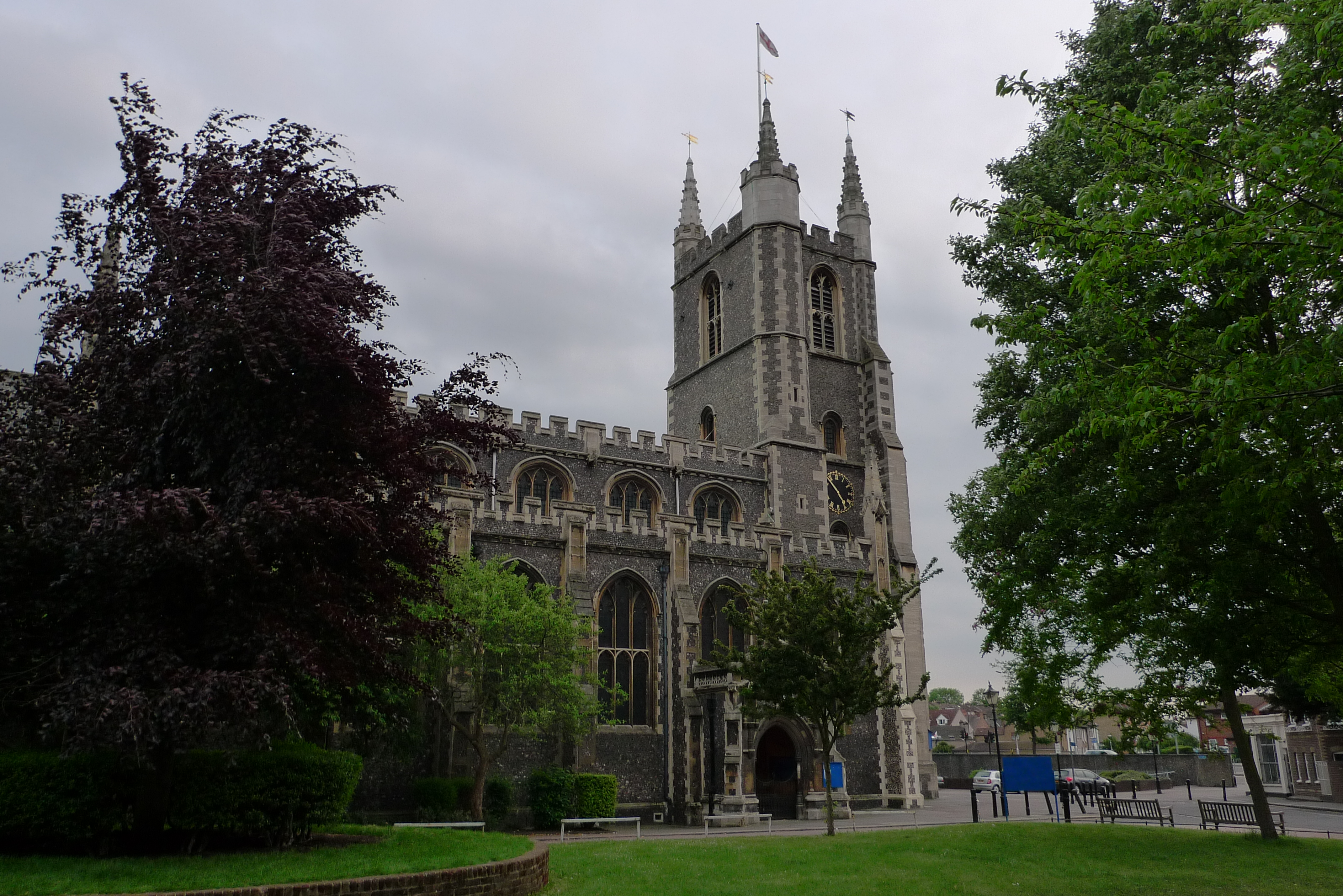 Croydon Parish Church, Church Street, Croydon. Image taken from the North East. Croydon Parish Church is a Grade I listed church. Severely fire damaged in 1867, the church was rebuilt under the direction of George Gilbert Scott. Croydon Parish Church official website Parish Church Of St John The Baptist at English Heritage